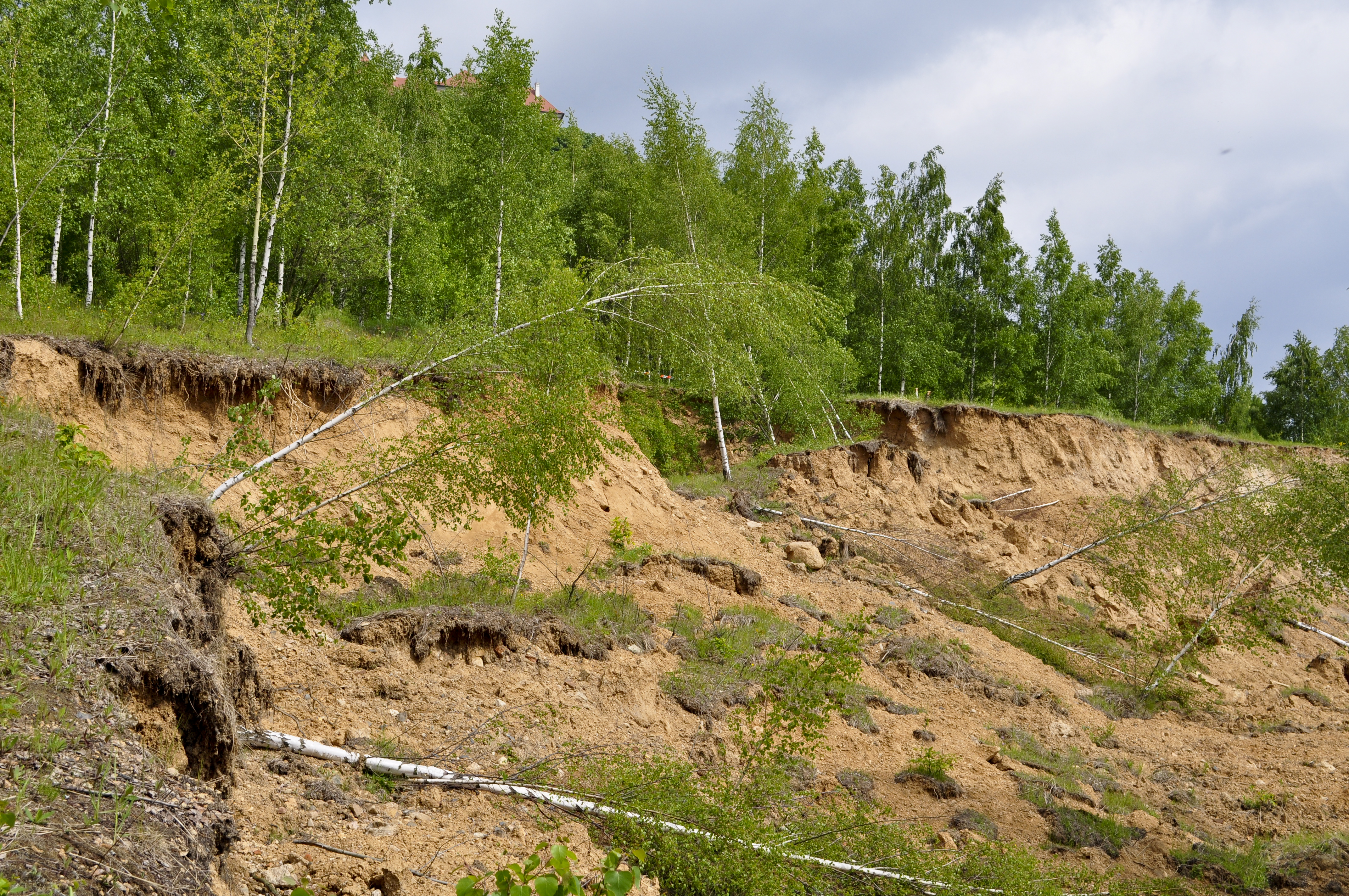 Landslide at the Jezeří Castle